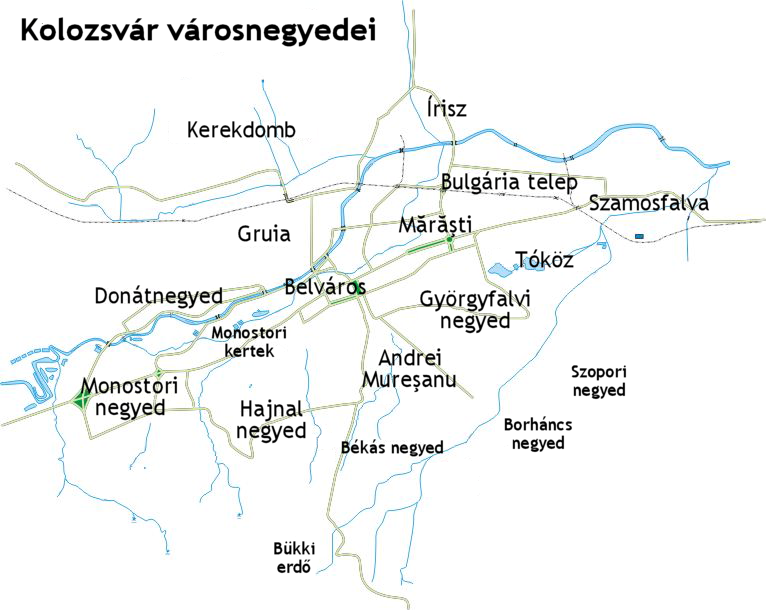 Districts of Cluj-Napoca with Hungarian labels